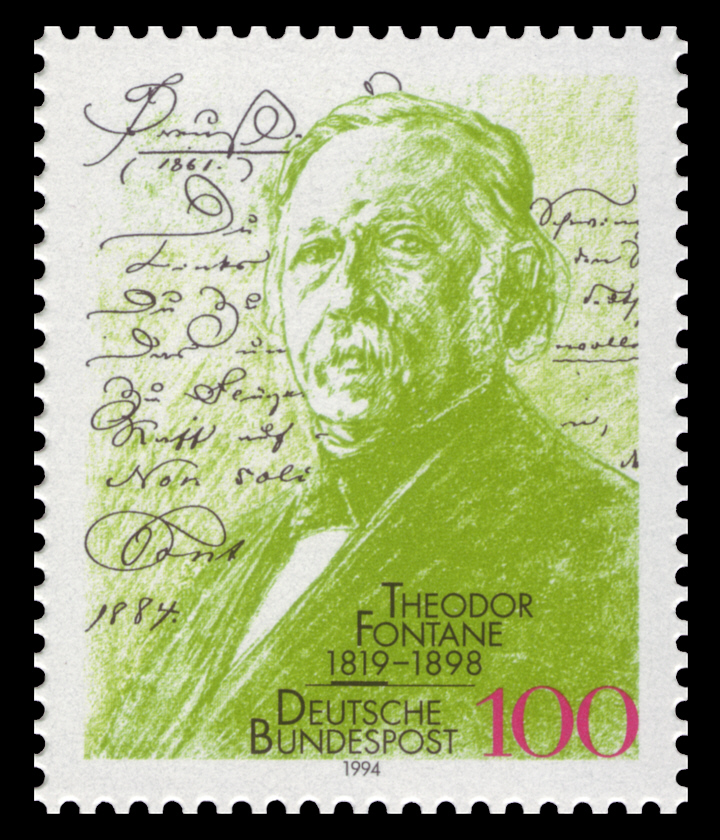 175th day of birth of Theodor Fontane (1819—1898)